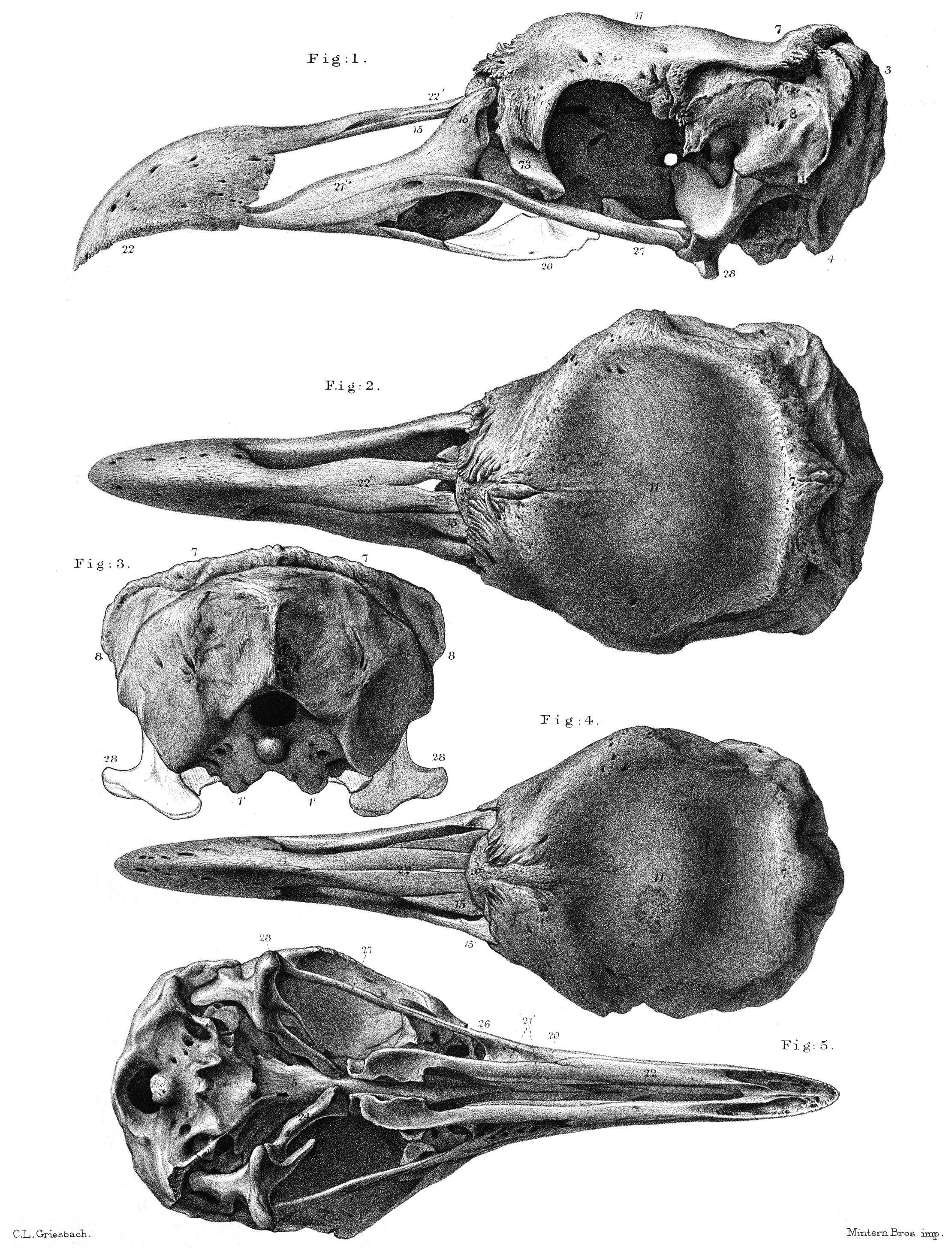 Skull of male (1-3) and female (4-5) Rodrigues Solitaires.